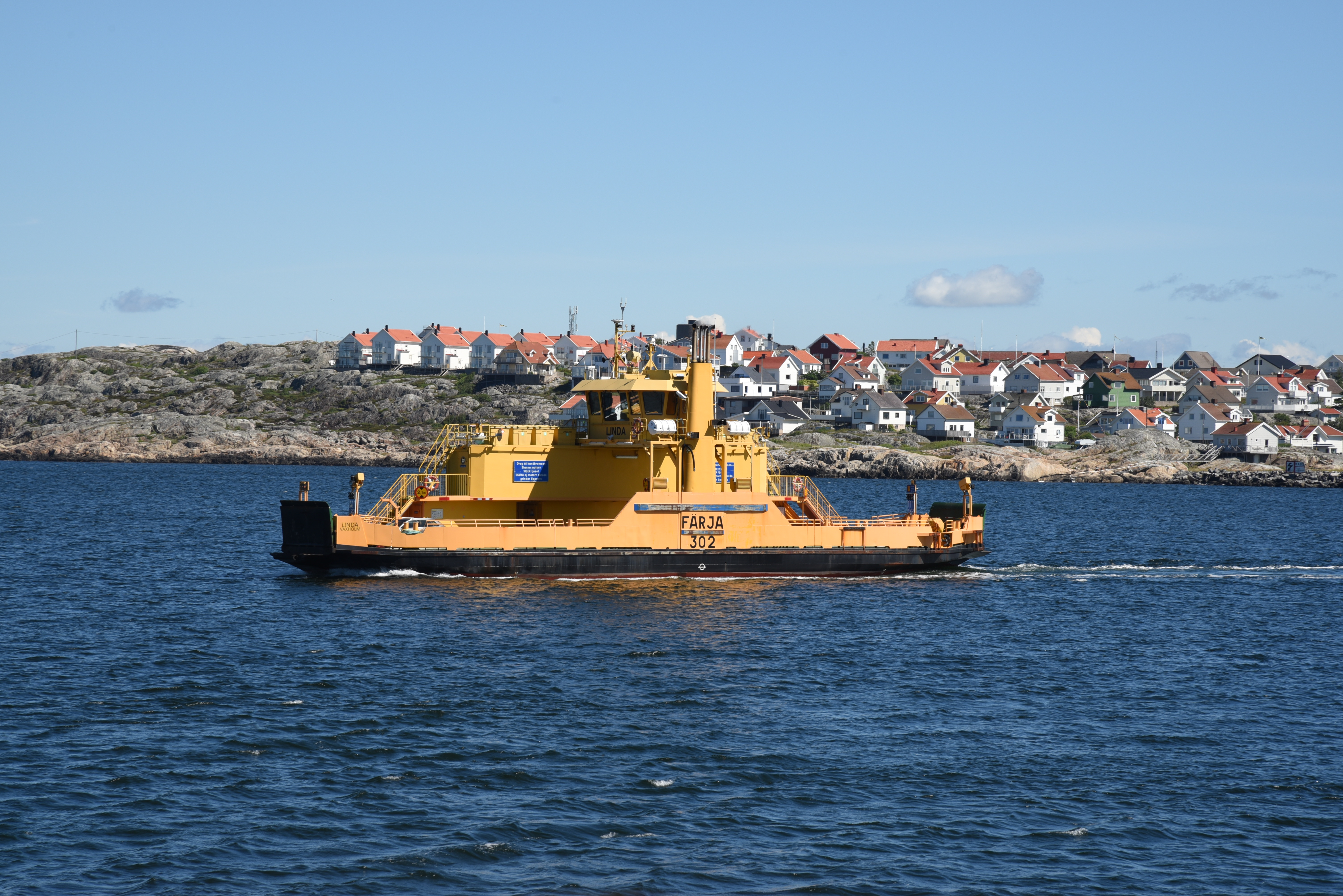 The ferry 302 Linda on Nordleden in Öckerö municipality